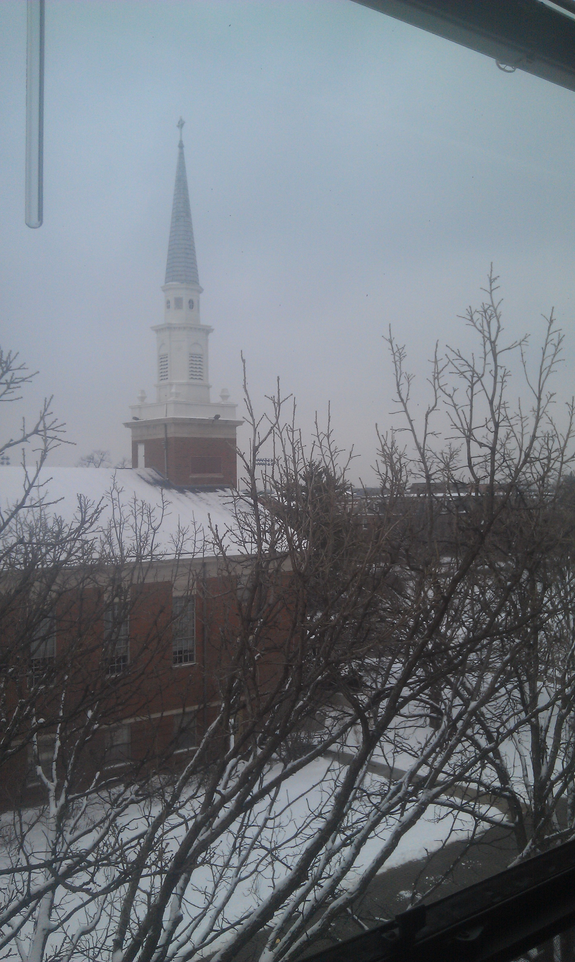 Chapel in the Snow